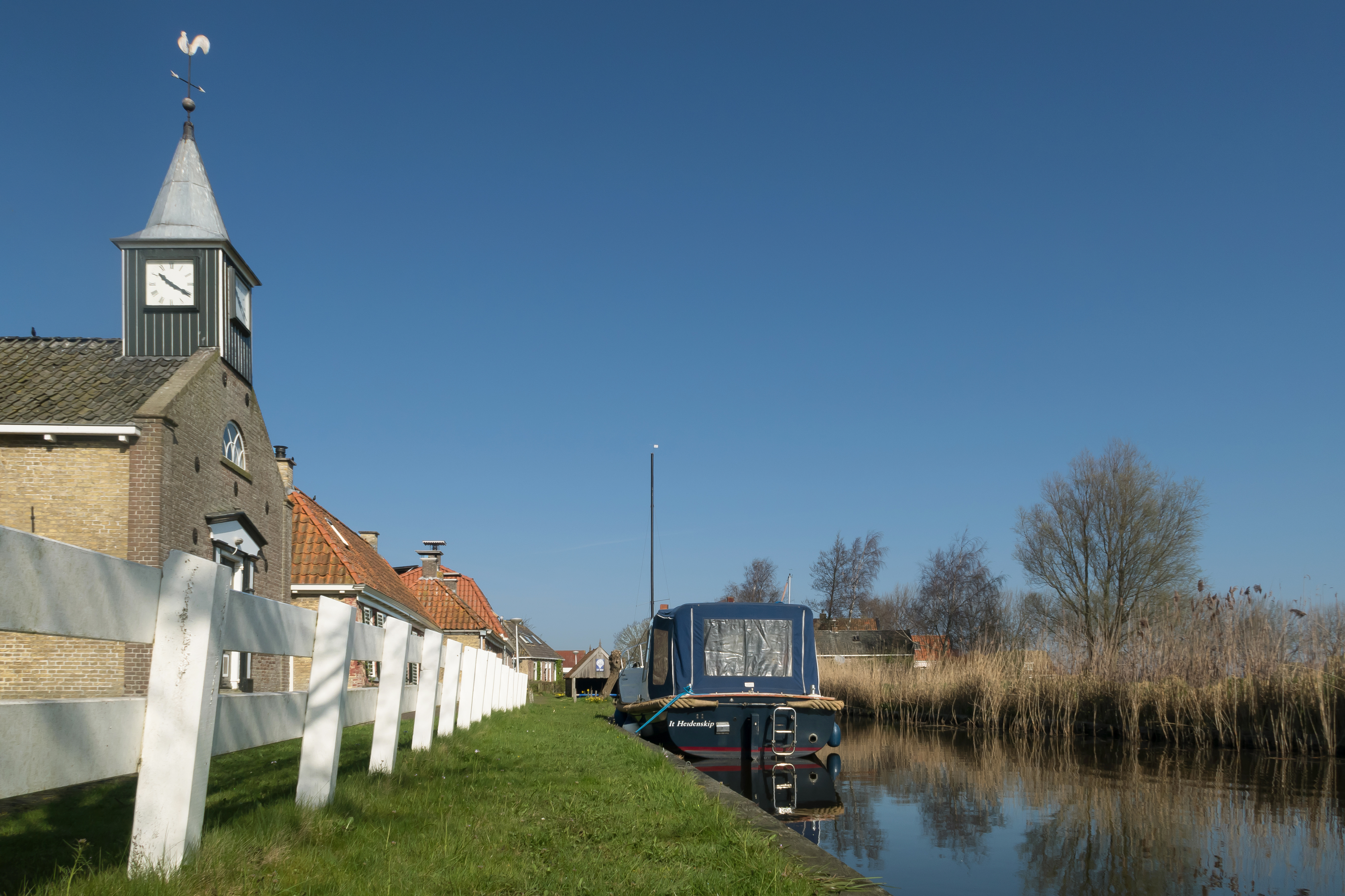 It Heidenskip, street view (de Grote Buurt' with small church